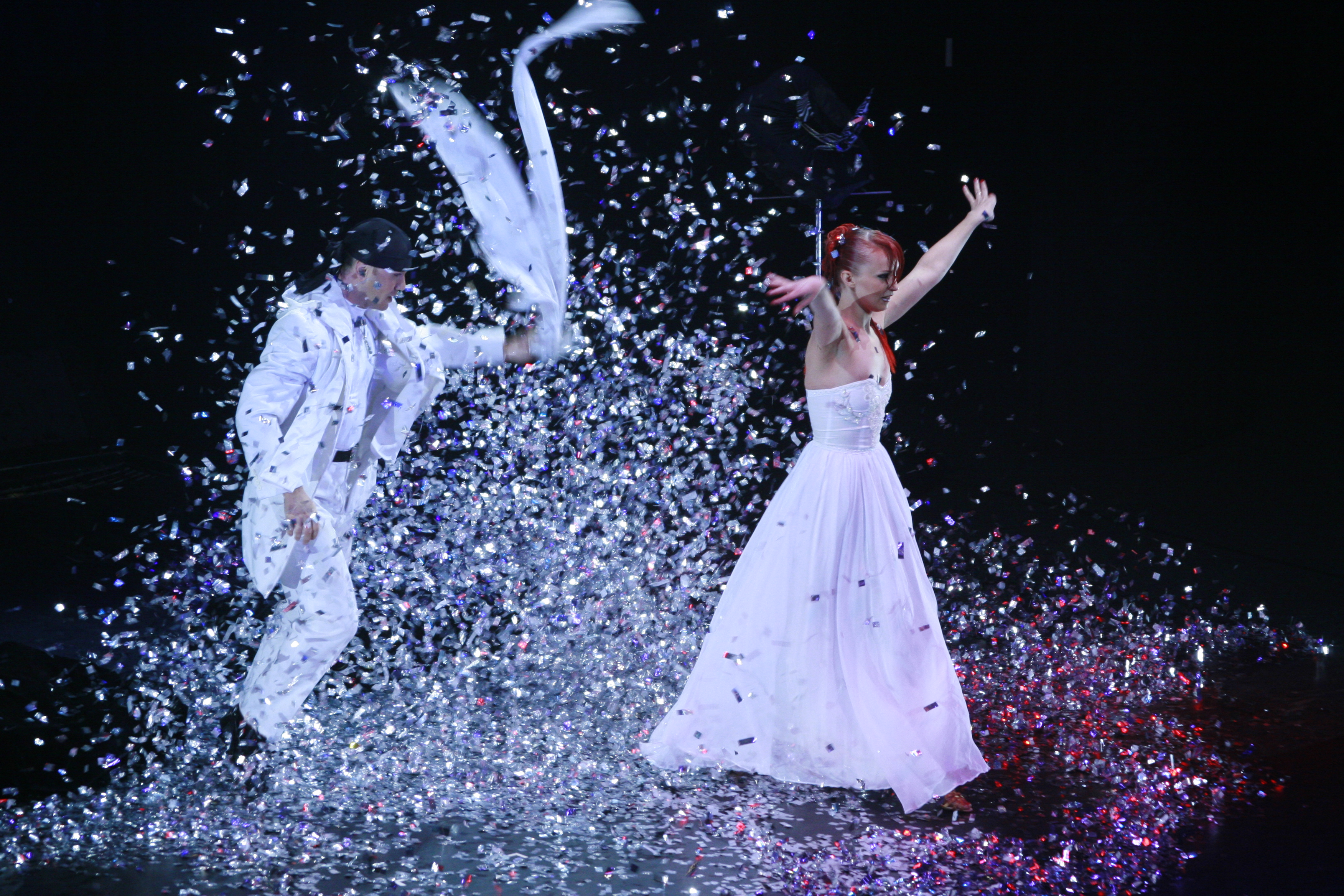 Sos Victoria Petrosyan Quick Change Magicians